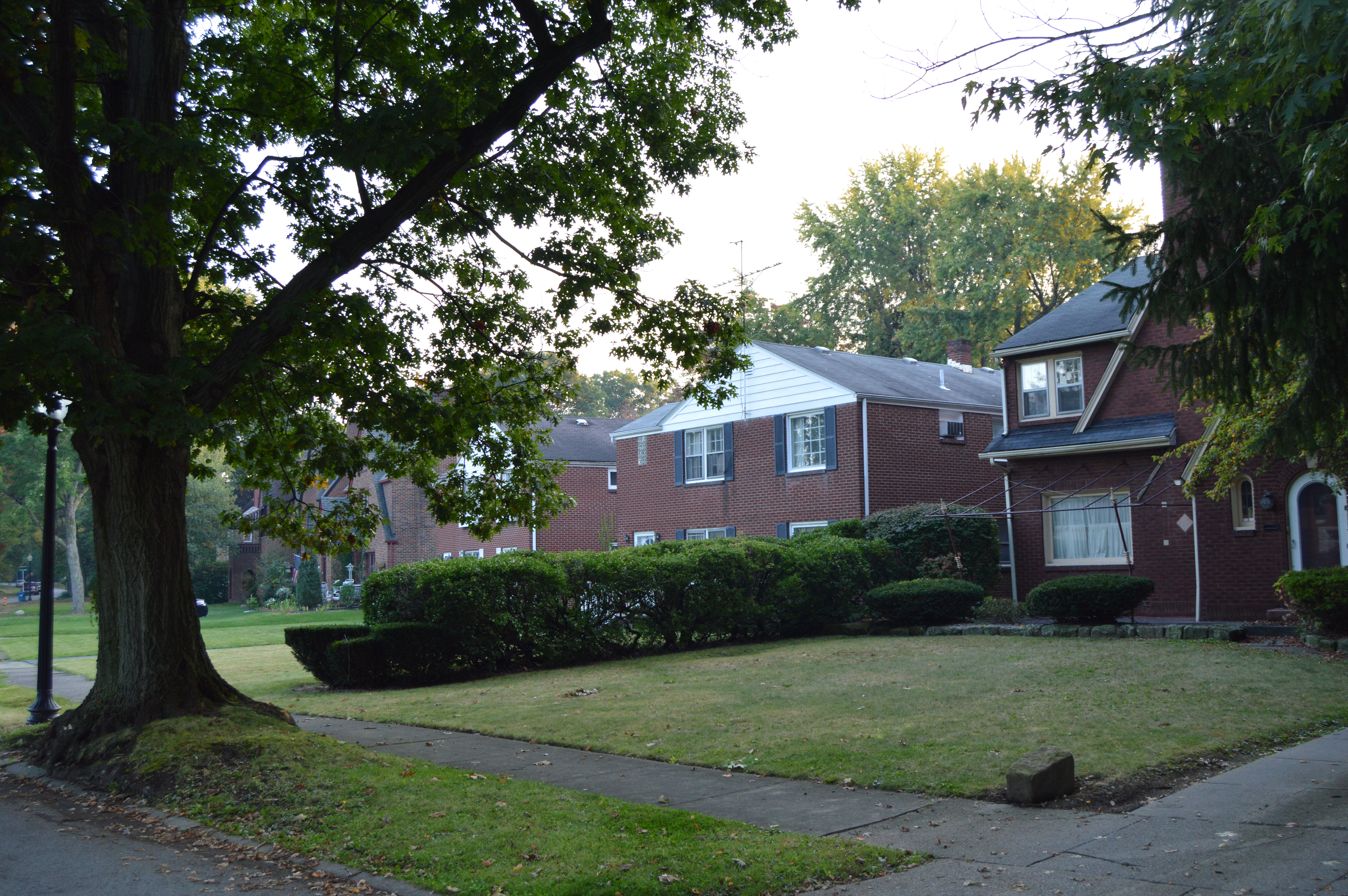 Houses on the western side of Chester Drive south of Overhill Road in Boardman Township, Mahoning County, Ohio, United States. They are part of the Newport Village Allotment Historic District, a historic district that is listed on the National Register of Historic Places.